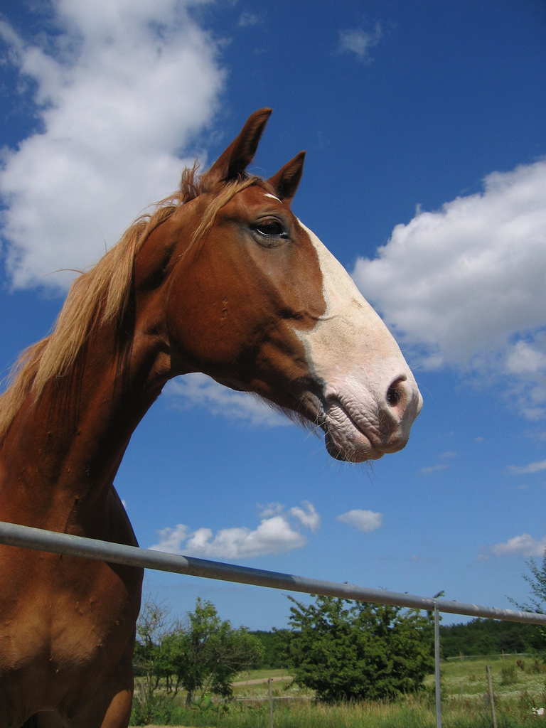 Frederikborg horse